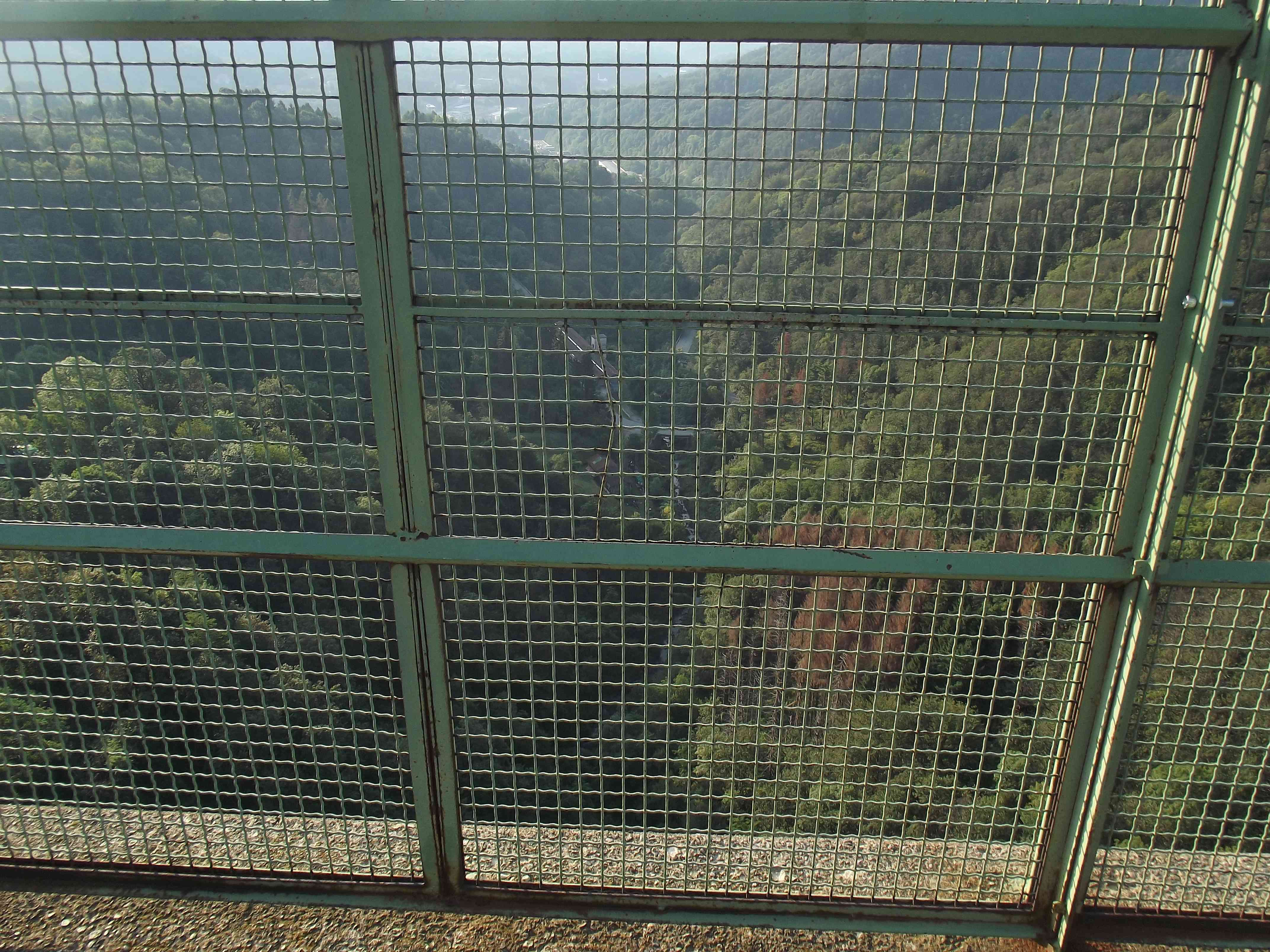 Pistolesa (BI, Italy): access point for bungee jumping